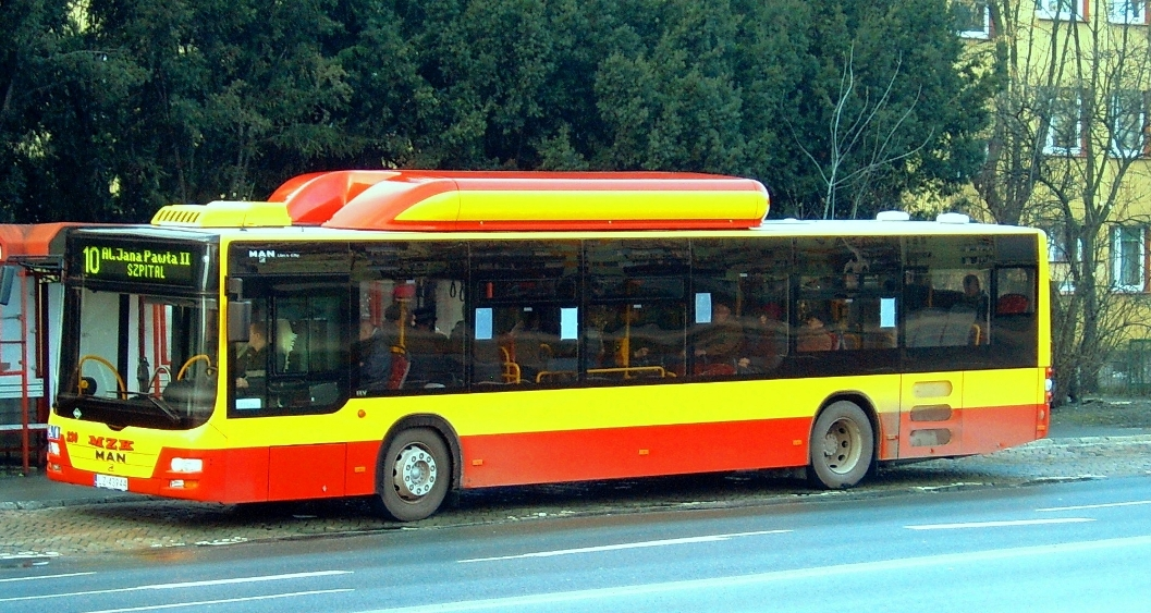 MAN NL273 Lion's City CNG bus (type A21) (#320, reg. LZ 43944) in Zamość, Poland. Built 2011, MZK Zamość operator.